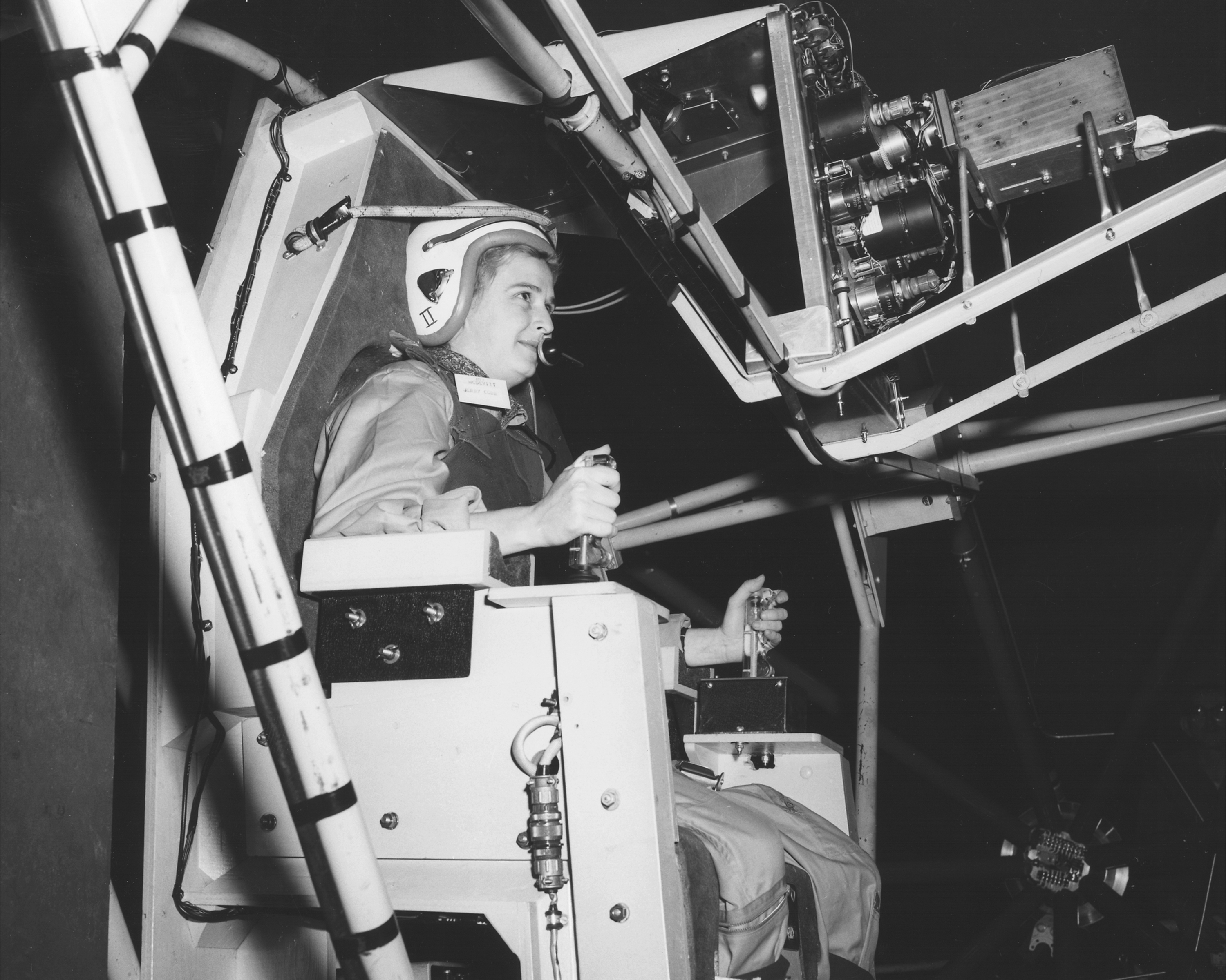 Jerrie Cobb, a well known female pilot in the 1950s, testing Gimbal Rig in the Altitude Wind Tunnel, AWT in April 1960. The Gimbal Rig, formally called MASTIF or Multiple Axis Space Test Inertia Facility, was used to train astronauts to control the spin of a tumbling spacecraft. Jerrie Cobb was the first female to pass all three phases of the Mercury Astronaut Program but NASA rules stipulated that only military test pilots could become astronauts and there were no female military test pilots. Jerrie completed this astounding feat in 1961. The MASTIF was installed at the Altitude Wind Tunnel at the Lewis Research Center, now John H. Glenn Research Center.